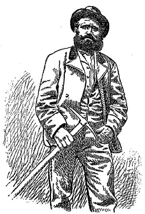 Michel Innerkofler. Albert Heim, in: Theodor Wundt, Ich und die Berge, 1917